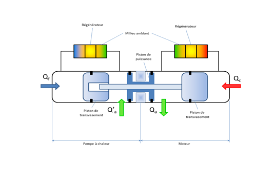 working principe of duplex stirling machine